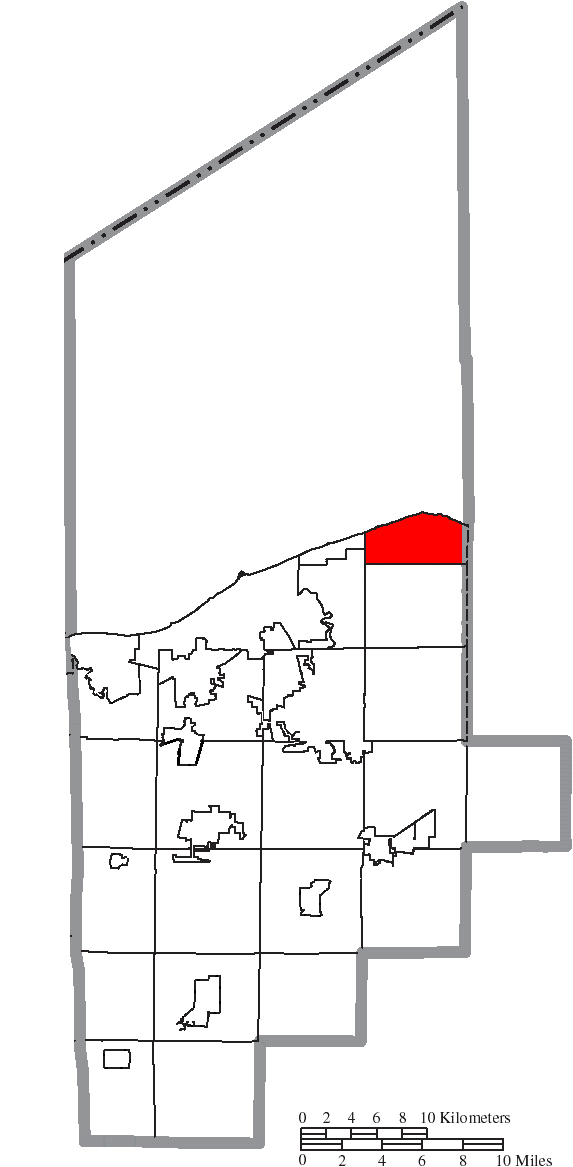 Map of the municipal and township boundaries of Lorain County, Ohio, United States, as of the 2000 census, with the location of the city of Avon Lake highlighted. Township borders are shown only in unincorporated areas in order to differentiate incorporated and unincorporated areas more clearly.